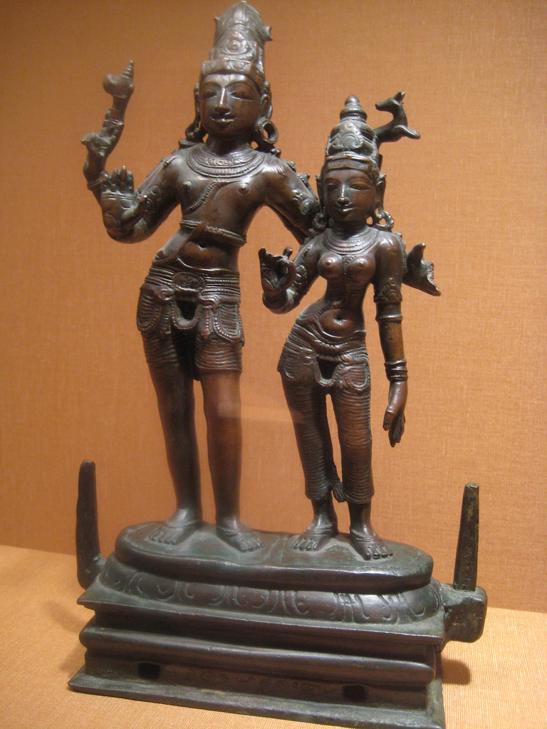 Shiva and Parvati India, Tanjore, Tamil Nadu, 14th century Bronze Honolulu Academy of Arts Gift of The Christensen Fund, 2001 (10648.1) Wikipedia Loves Art at the Honolulu Academy of Arts This photo of item # 10648.1 at the Honolulu Academy of Arts was contributed under the team name "wiki_wiki_whaaat" as part of the Wikipedia Loves Art project in February 2009. Honolulu Academy of Arts The original photograph on Flickr was taken by absolutlalaland—please add a comment to the original Flickr page whenever a use has been made on Wikipedia or another project. Project galleries on Flickr: this institution, this team